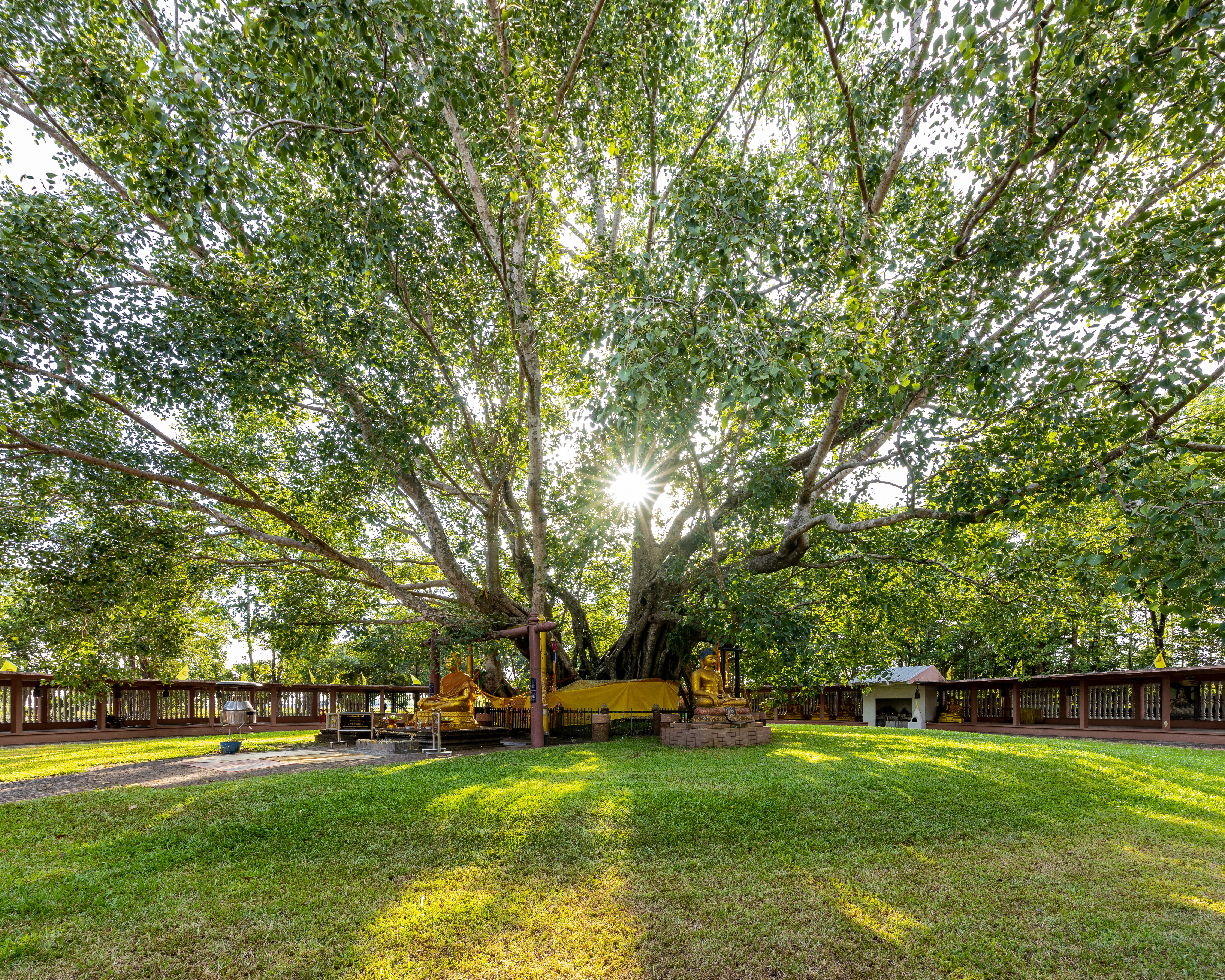 Ton Pho Si Maha Pho or Pho tree is a large Ficus religiosa in Prachin Buri believed as one of the oldest Pho tree in Thailand estimated around 2000 years ago.